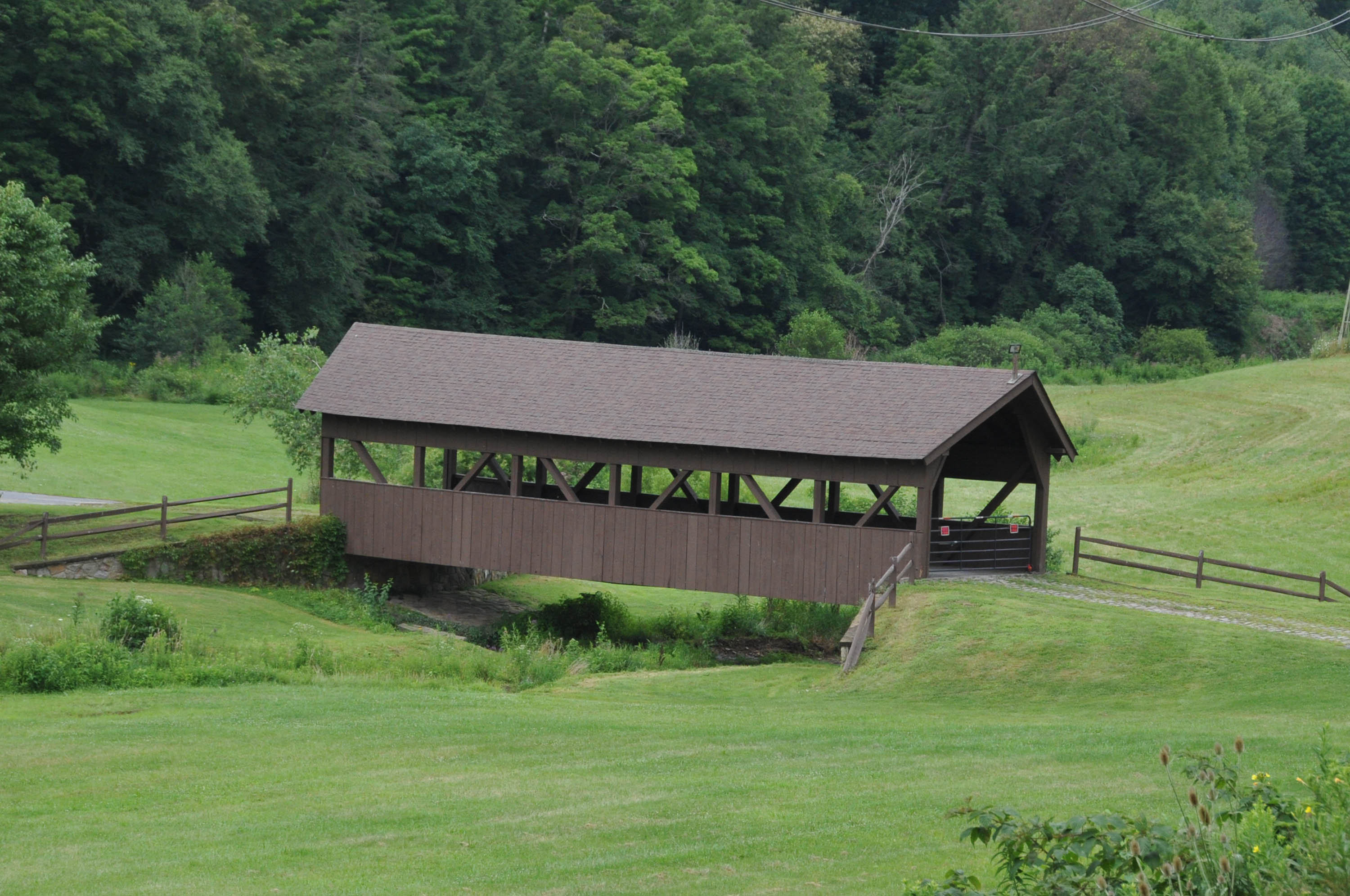 Kowalski's Farm 60’ STRINGER COVERED BRIDGE OVER PINE RUN IN NEW SEWICKLEY TOWNSHIP